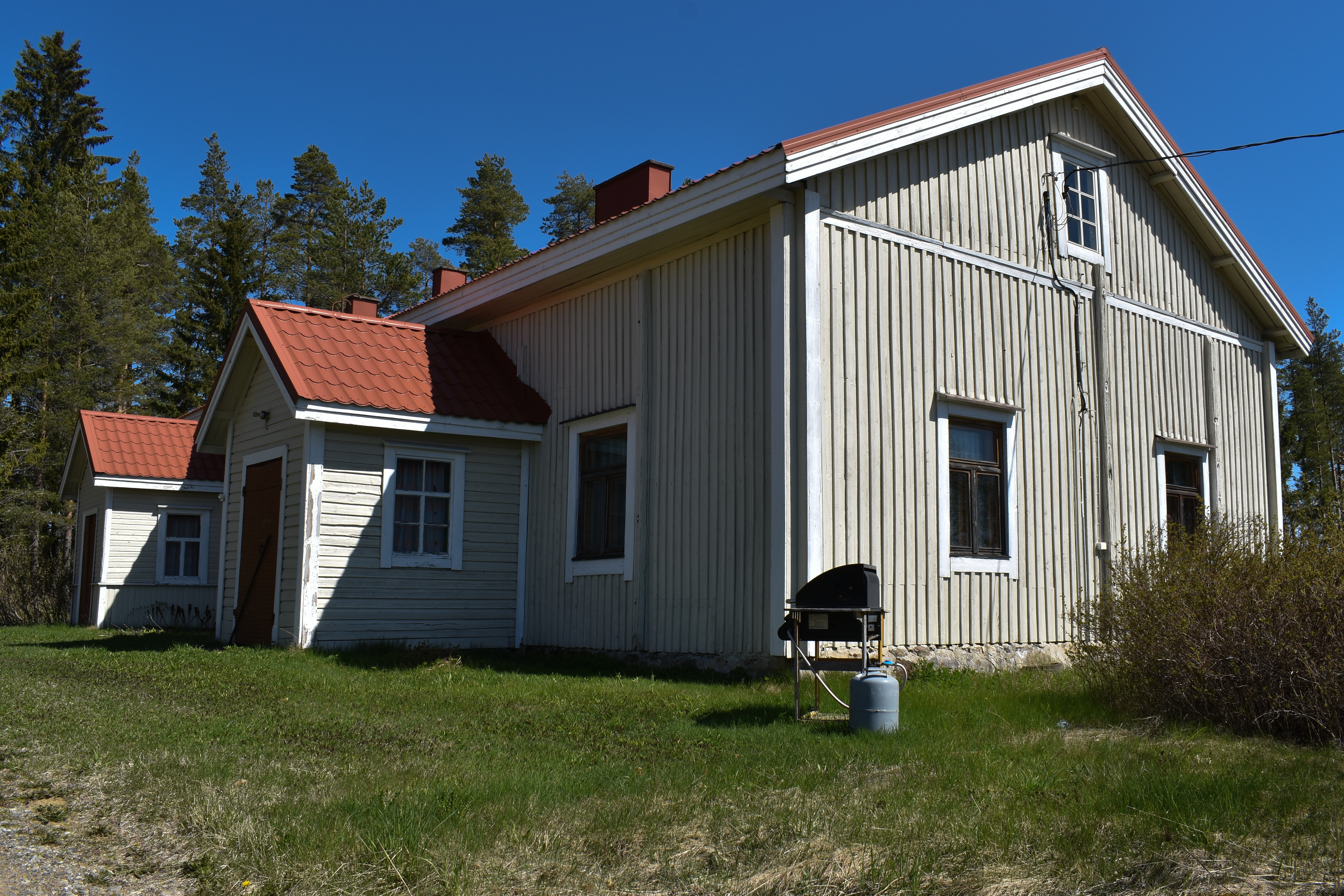 Majalampi farm house was constructed in 1900. It is the birthplace of Finnish novelist Iris Uurto.